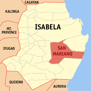 Map of Isabela showing the location of San Mariano